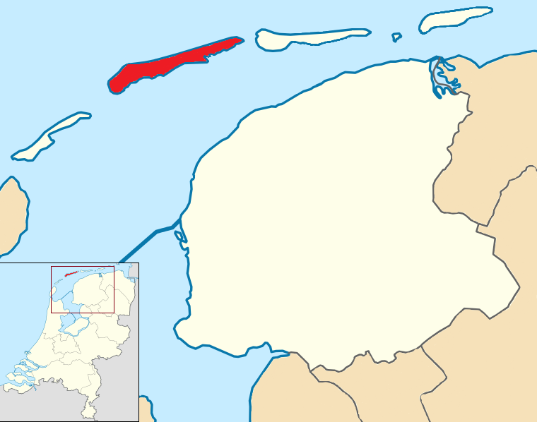 Terschelling, island and municipality in Friesland, Netherlands, 2018